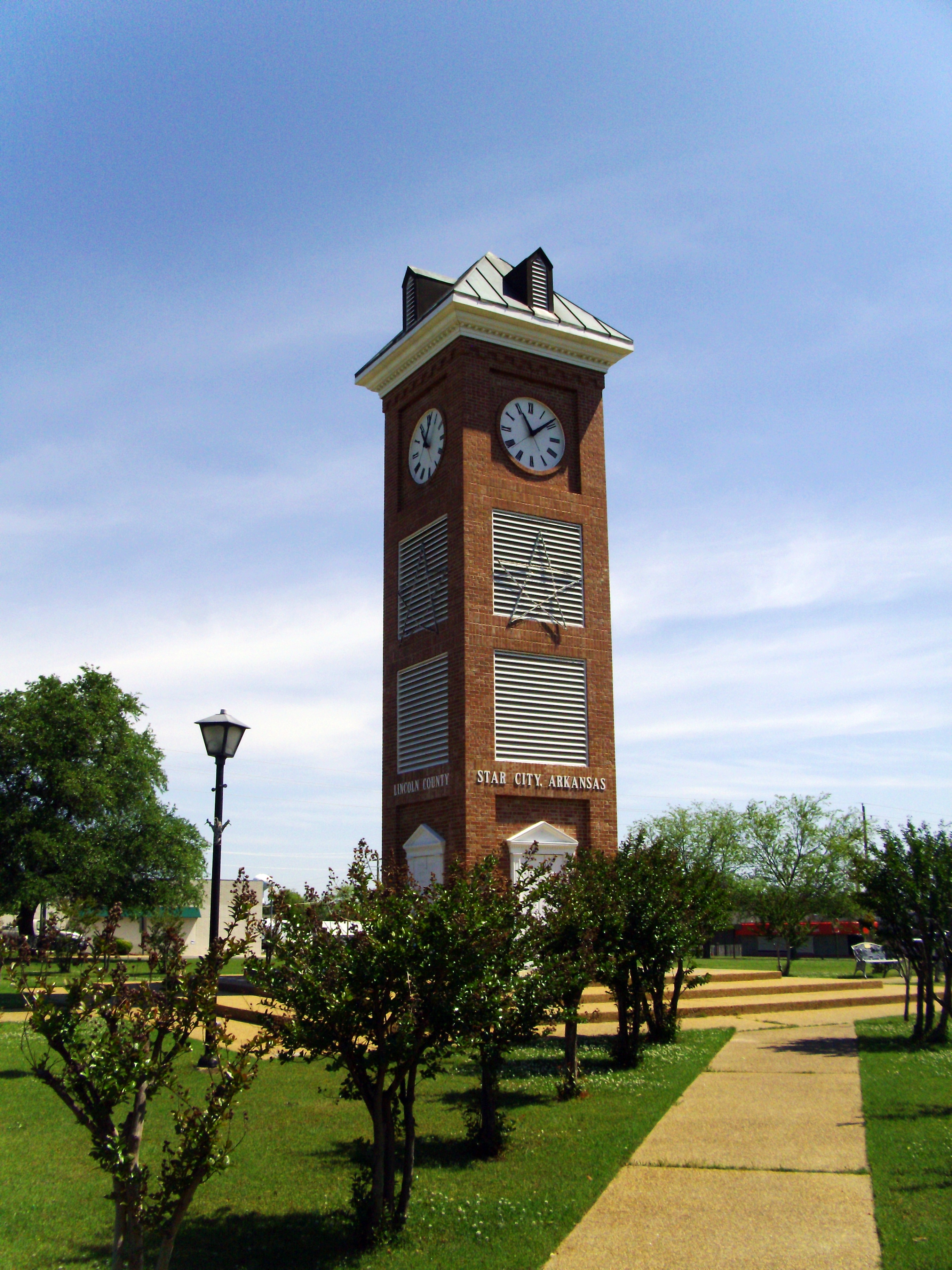 Clock tower in downtown Star City, AR